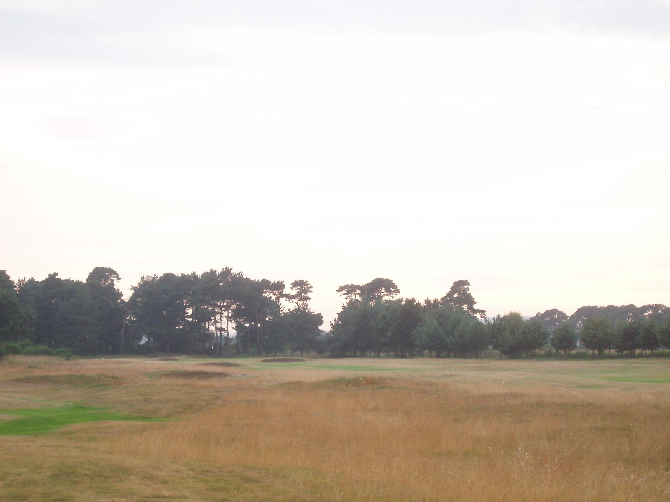 the 3rd green, panmure